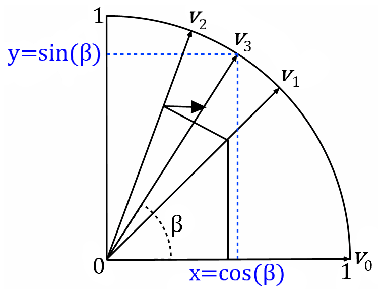 An illustration of the CORDIC algorithm in progress.